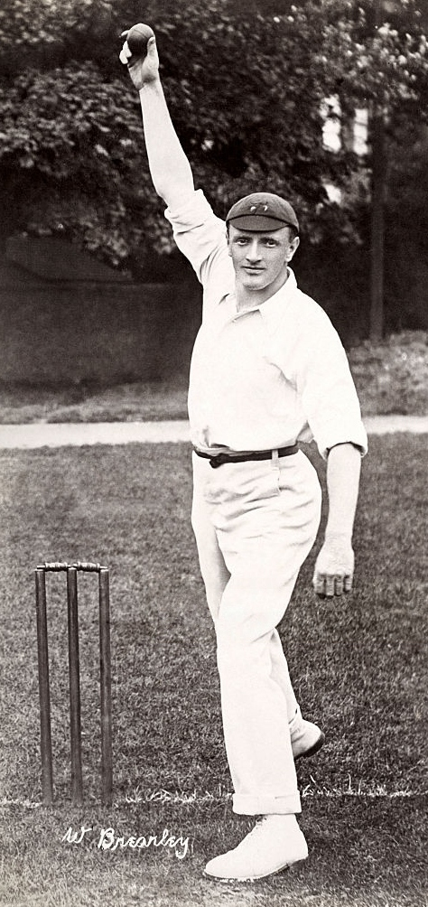 Lancashire and England cricketer Walter Brearley, circa 1908.